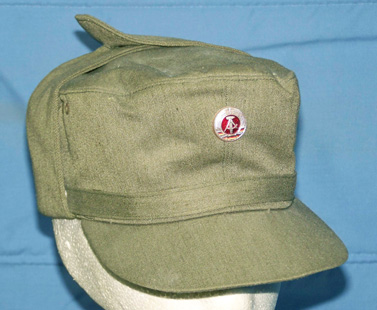 Armed organs of the the German Democratic Republic (GDR) until 1990, “Combat Groups of the Working Class” – Uniforms, here “service/field cap” as to about 1989.